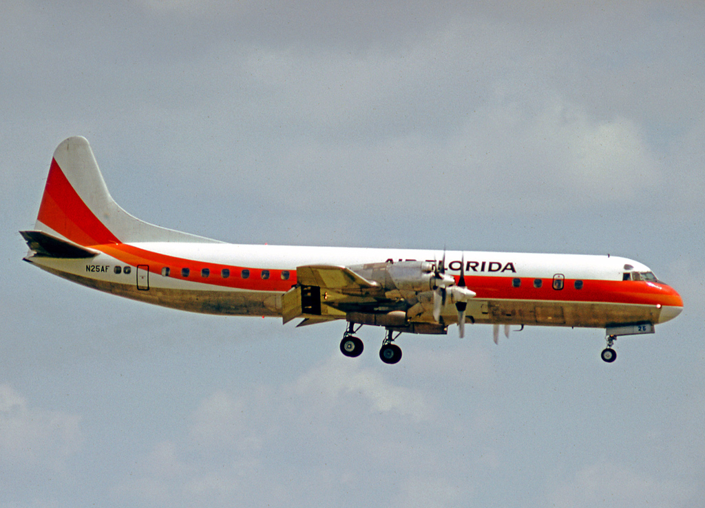 Lockheed L-188C Electra N25AF of Air Florida at Miami International Airport in 1976